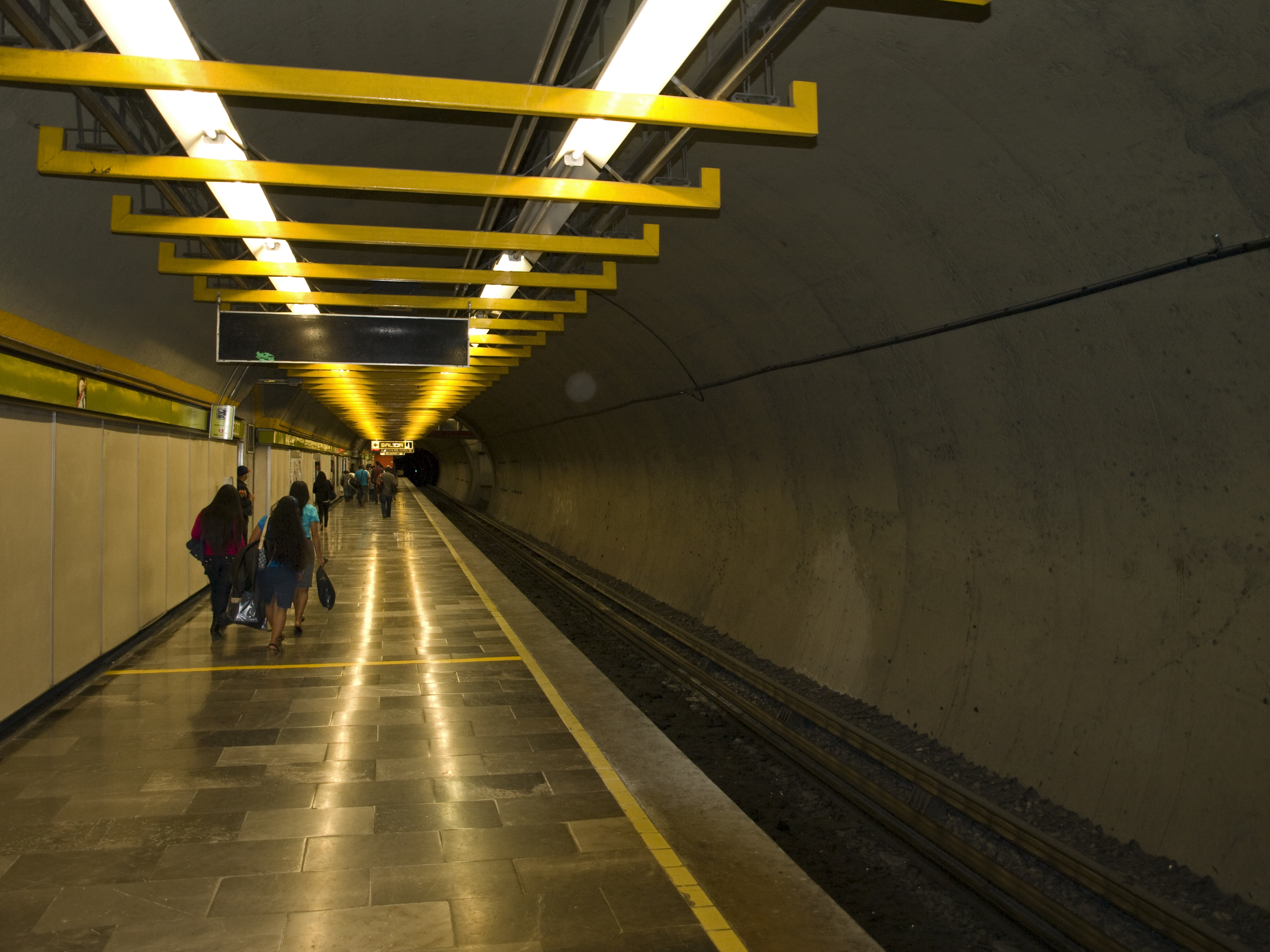 Platforms, Metro Miguel Ángel de Quevedo